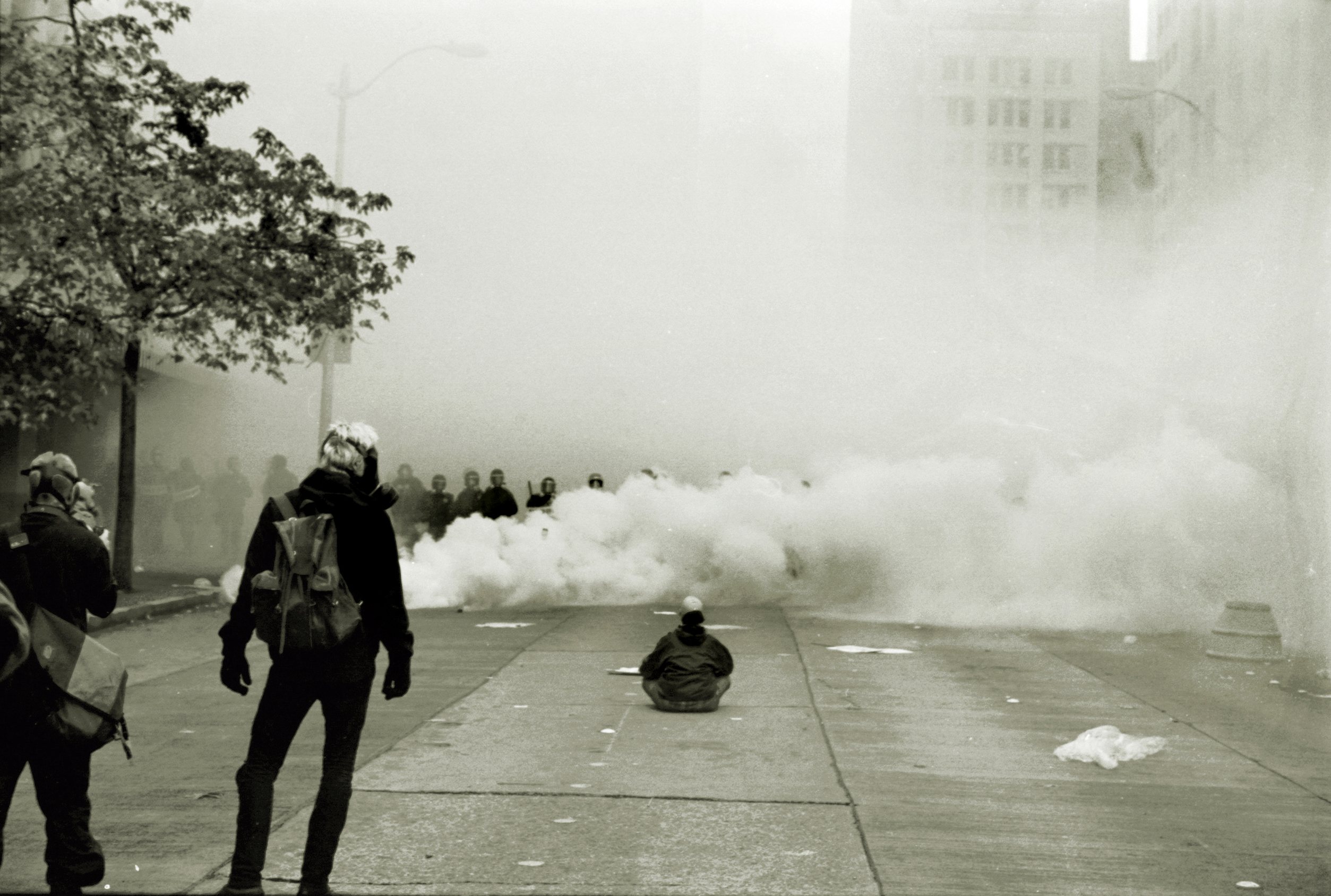 This was shot at the WTO protests in Seattle WA Nov. 1999. This is also from the roll that was damaged in processing.